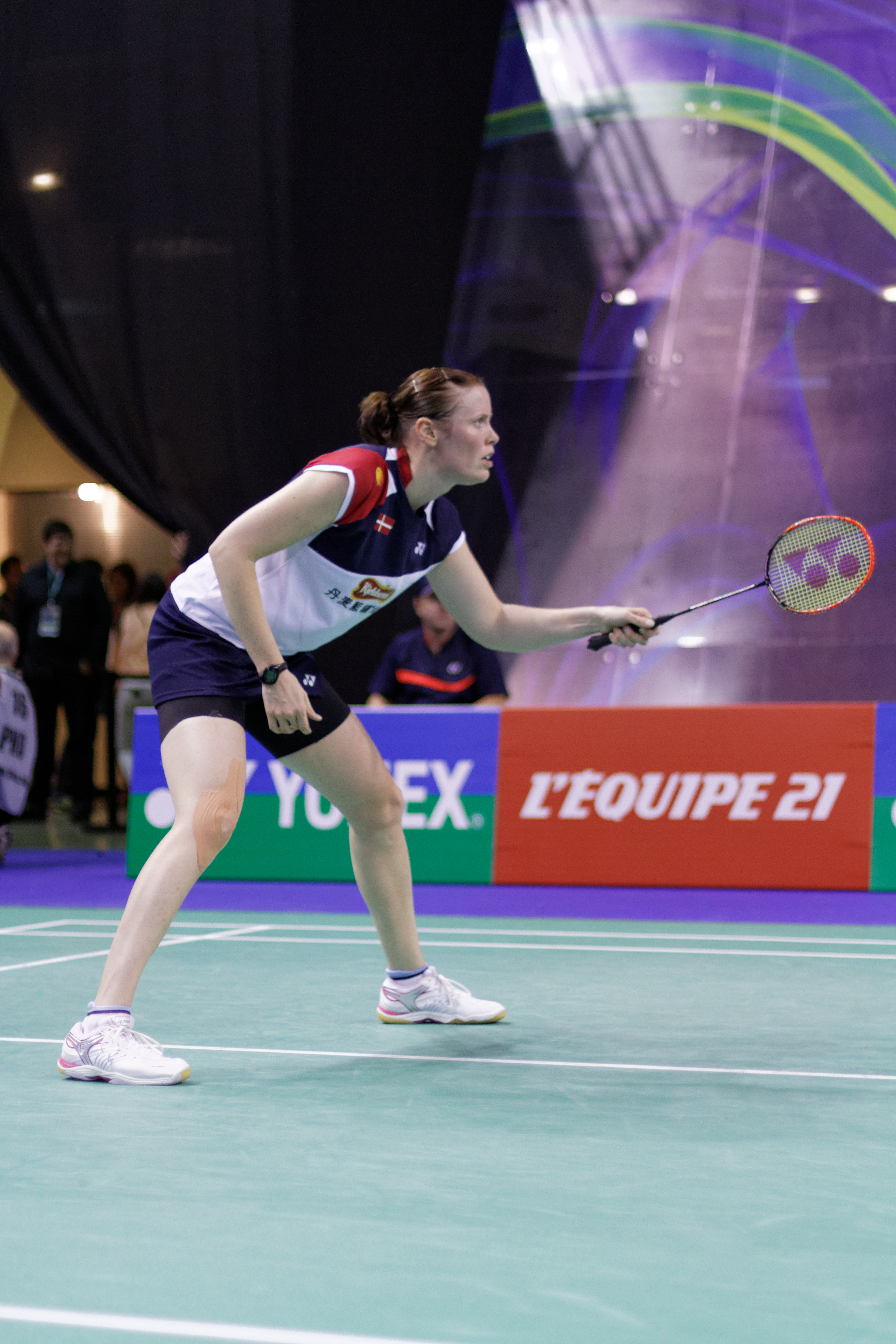 2013 French open. Women's doubles eightfinal. Johanna Goliszewski and Birgit Michels vs Christinna Pedersen and Kamilla Rytter Juhl.